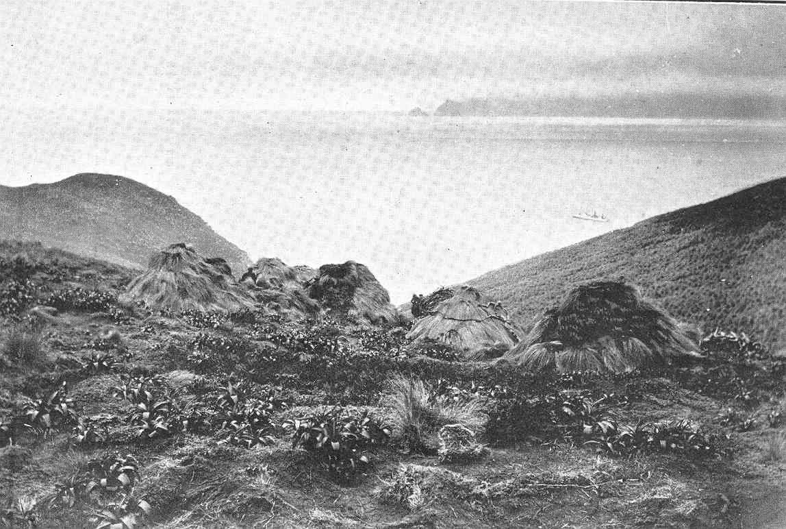 Huts of the "Dundonald" Castaways on Disappointment Island The "HInemoa" near the Island; Bulbinella Rossii in foreground; the north end of Auckland Island in the Distance Subject: Survival after airplane accidents, shipwrecks, etc.--New Zealand--Auckland, Castaways--New Zealand, Disappointment Island (New Zealand), Dundonald (Ship) Geographic Subject: New Zealand--Disappointment Island Tag: Coasts